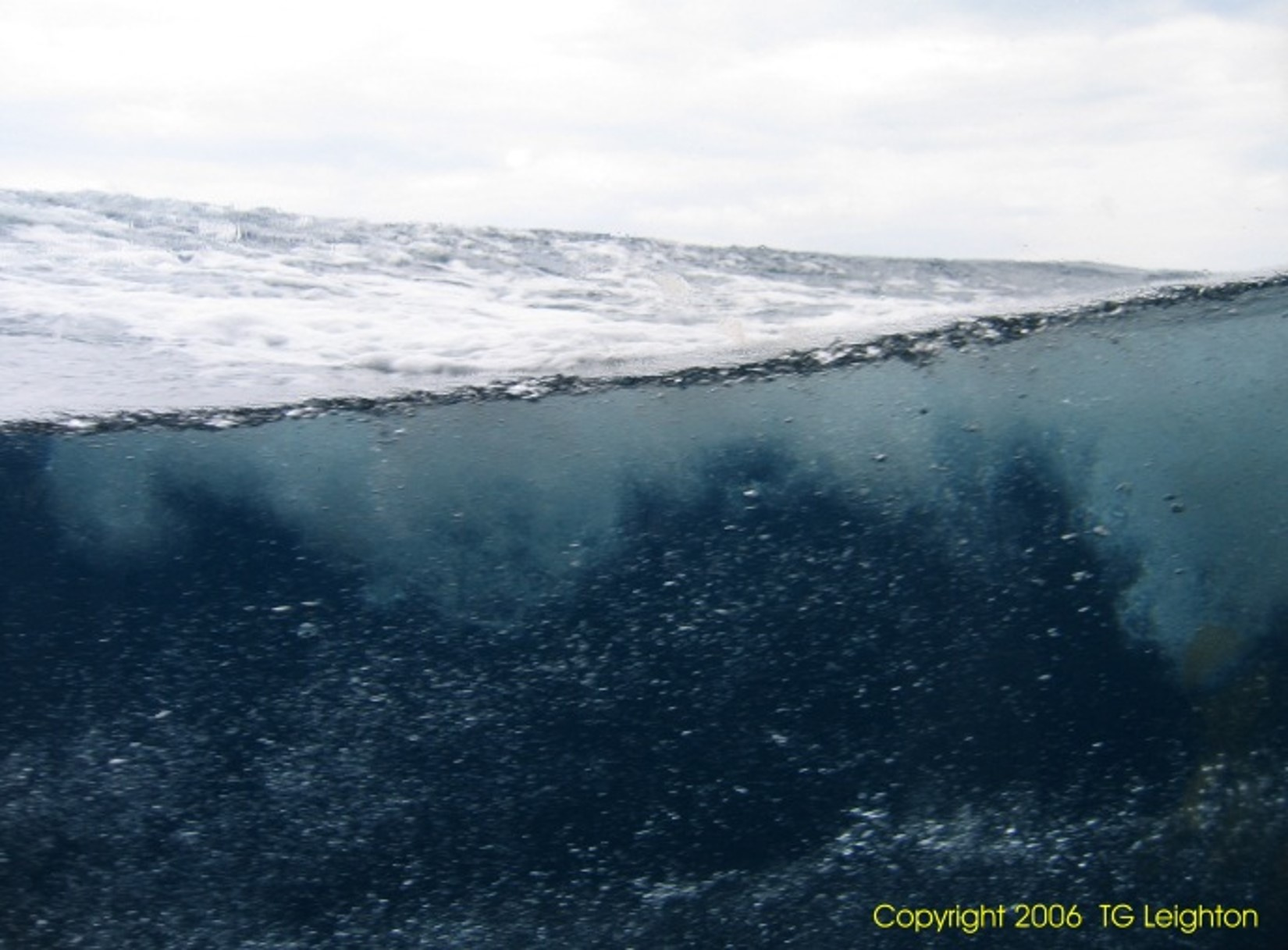 Bubble clouds shown under the sea. From Leighton, T. G., Coles, D. G. H., Srokosz, M., White, P. R. and Woolf, D. K. (2018) Asymmetric transfer of CO2 across a broken sea surface. Scientific Reports, (Nature Publishing Group), 8, article 8301 (